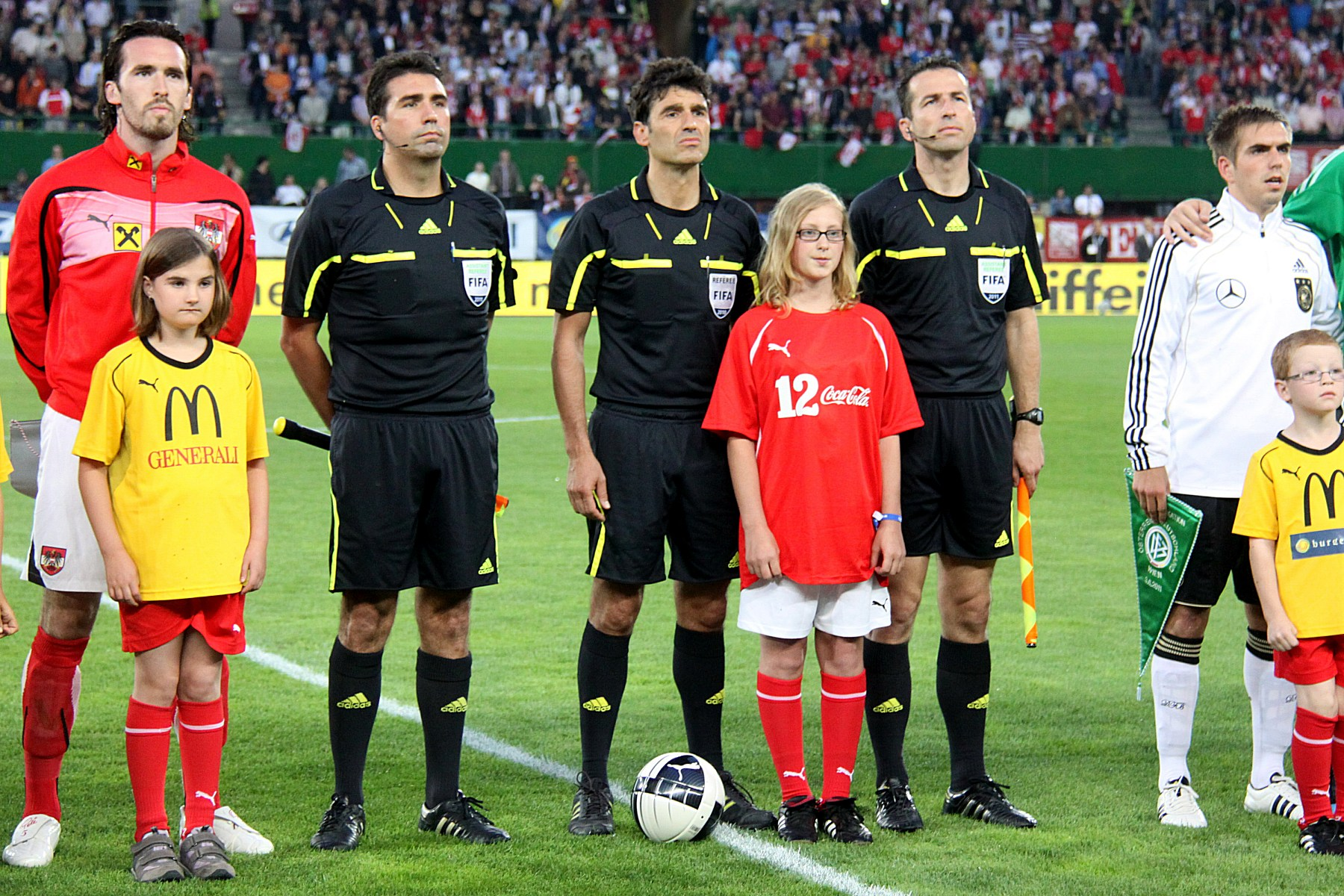 Qualifying for the UEFA Euro 2012 Austria (red shirt) vs. Germany (white Shirt) 1:2 (0:1) at 2011-06-03 in Vienna (Ernst-Happel-Stadion) — The photo shows (fron left to right): Christian Fuchs (1. FSV Mainz 05), Manuel Navarro (Assistant referee), Massimo Busacca (FIFA-Referee), Matthias Arnet (Assistant referee), Philipp Lahm (FC Bayern München).